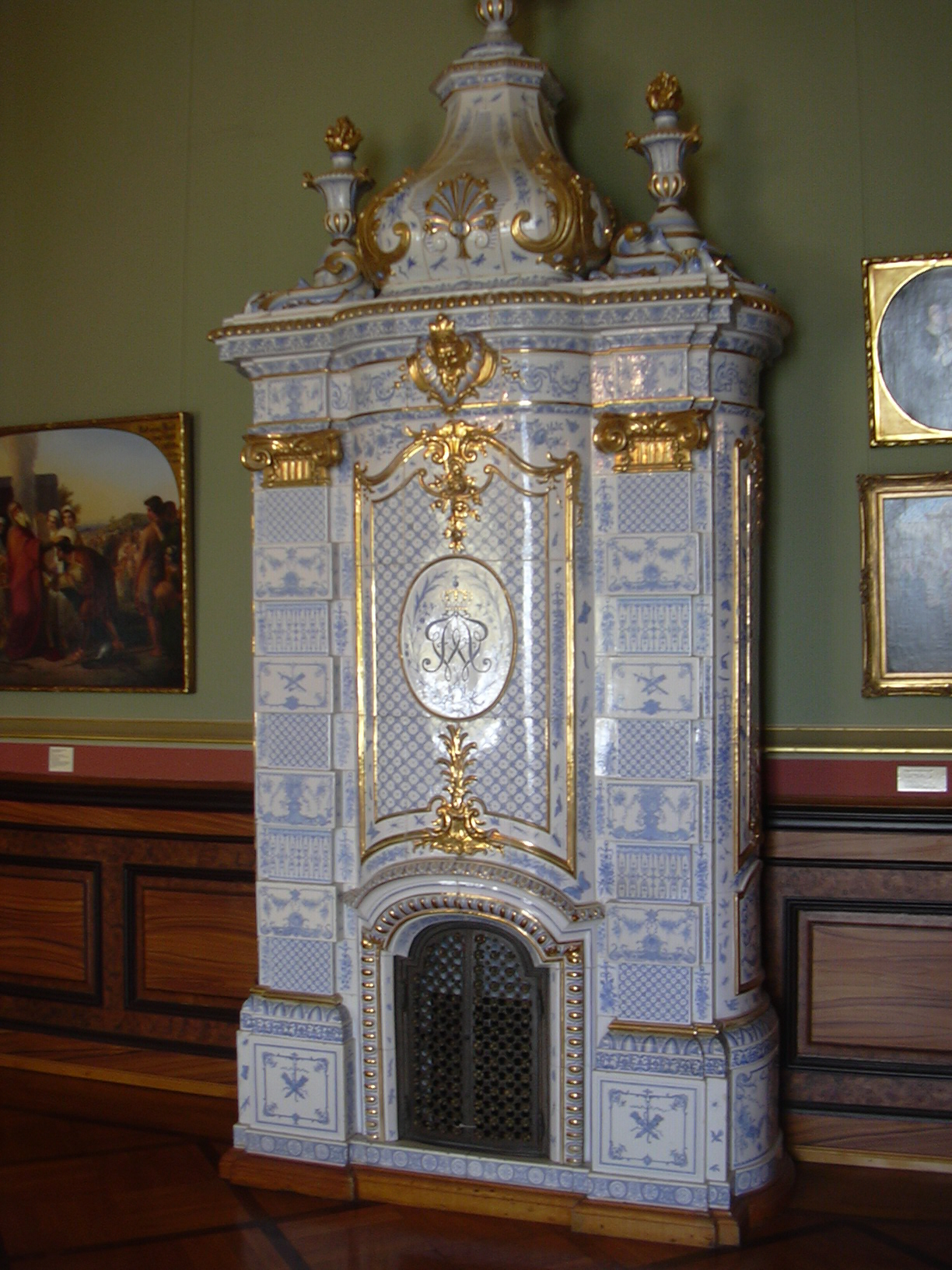 Philippsruhe Castle, mantlepiece, near Hanau, Hesse/Germany